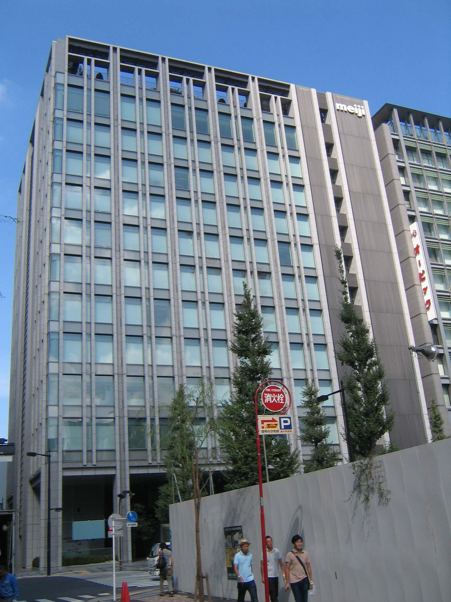 Meiji Holdings headquartrs in Kyobashi, Chuo Ward, Tokyo, Japan